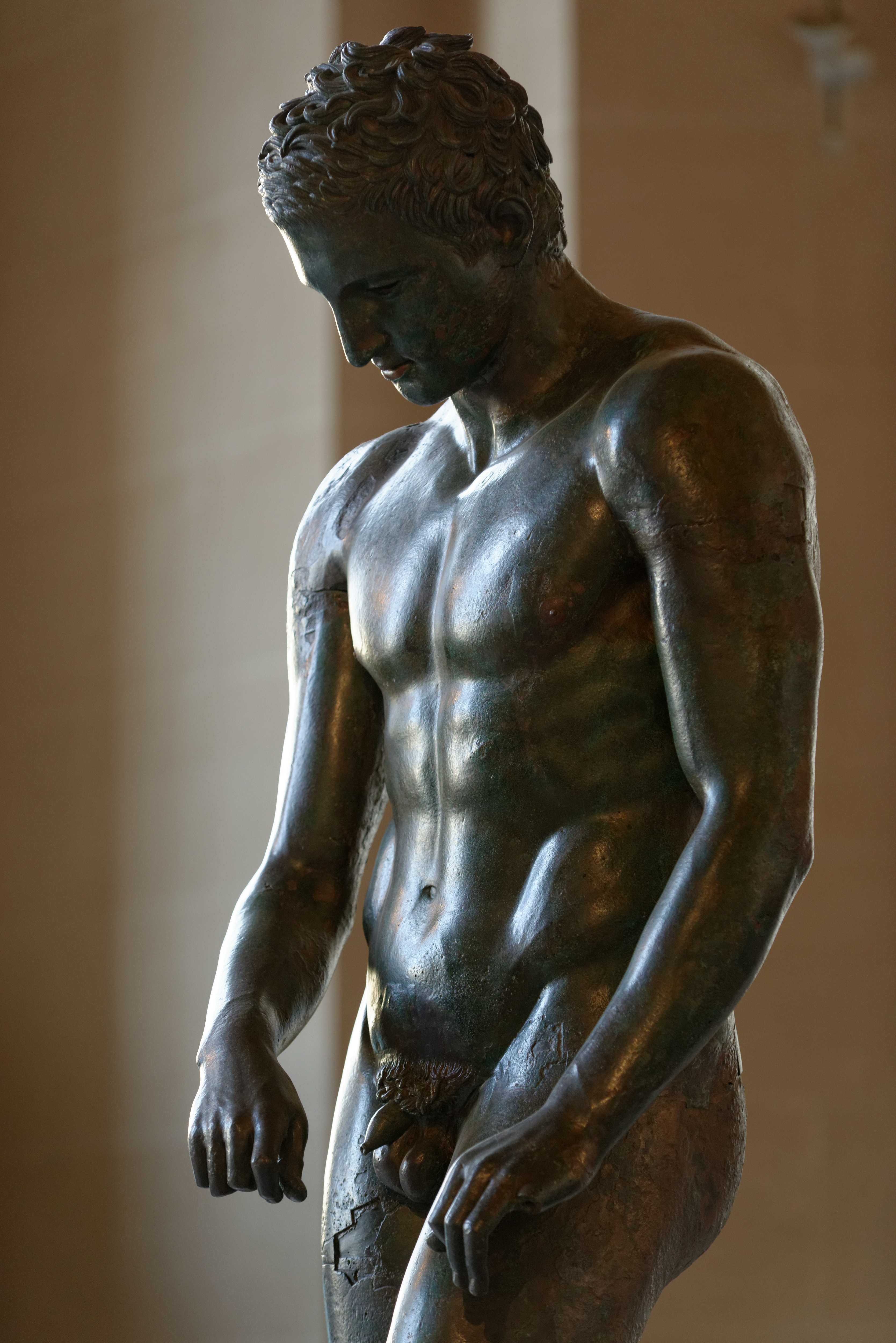 Statue of an athlete scraping himself or scraping his strigil.